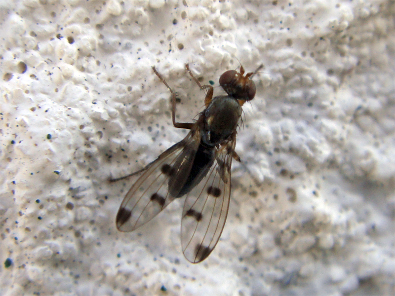 Geomyza tripunctata in Ansião, Leiria, Portugal